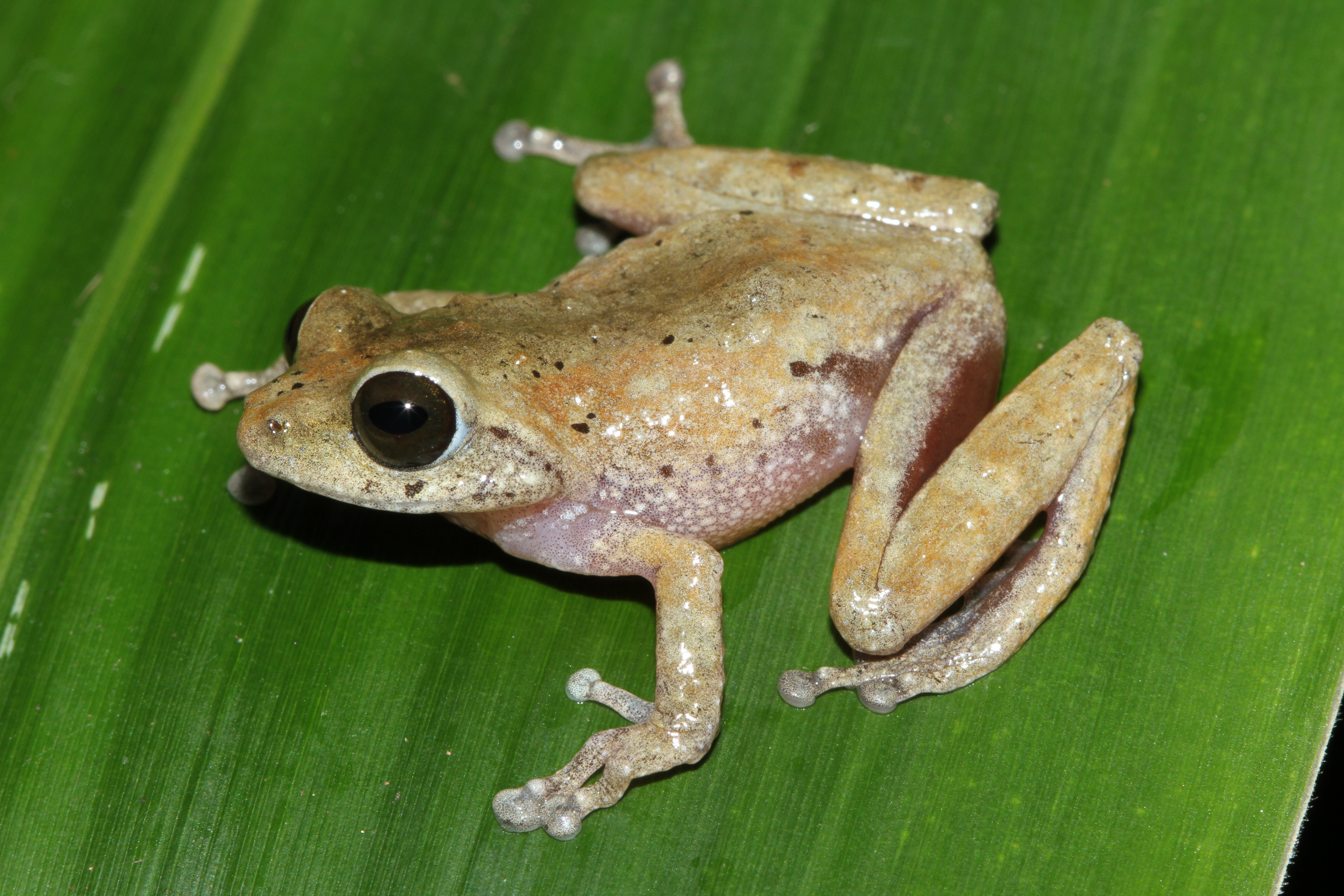 frog from western Ghats